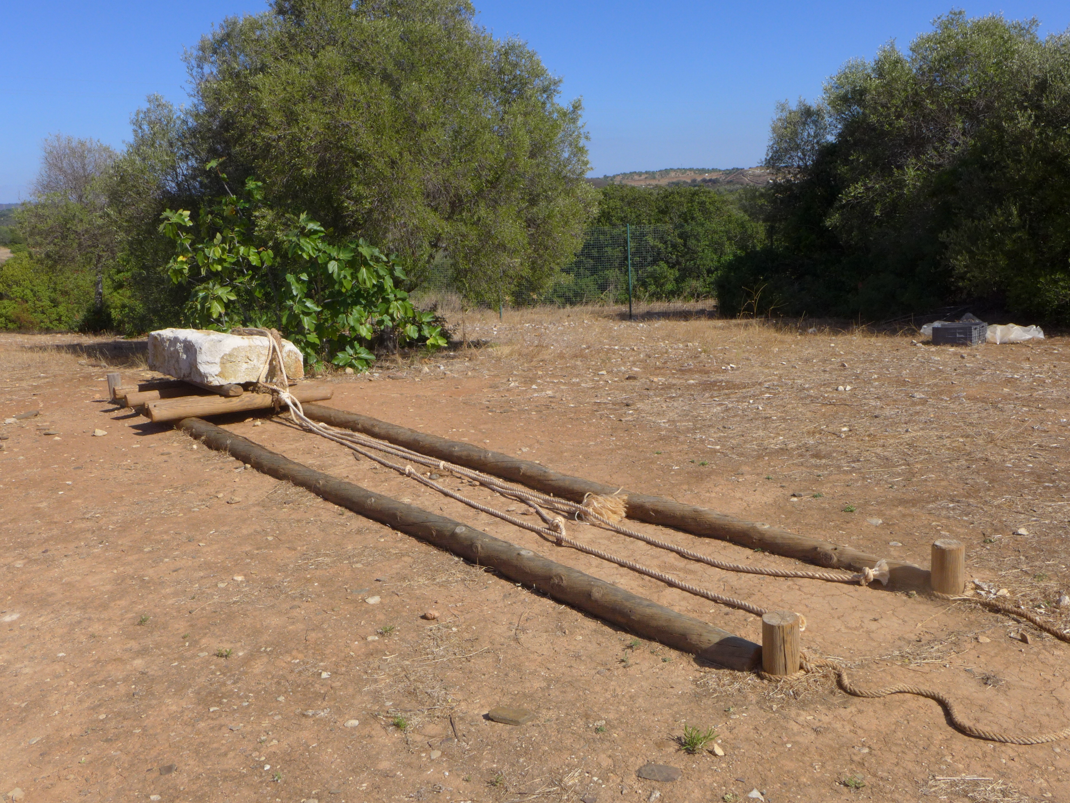 The Megalithic monument Tholos 7, Alcalar, Algarve, Portugal constructed between 2000 and 1600 B.C., at the height of the Calcolithic period.Technology reconstruction.How the megalith blocks were moved.